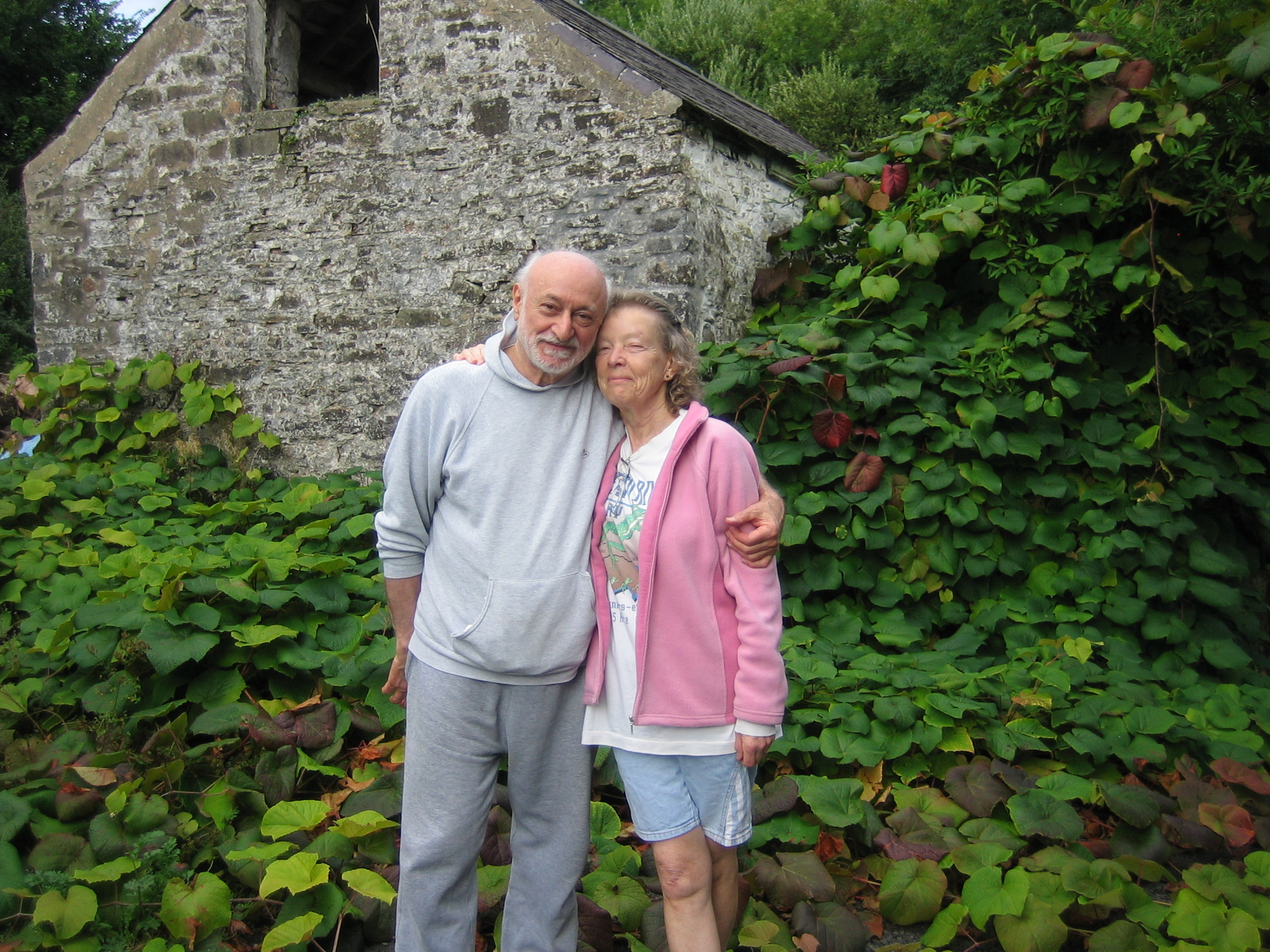 Hiag and Margaret Akmakjian near their home in Wales